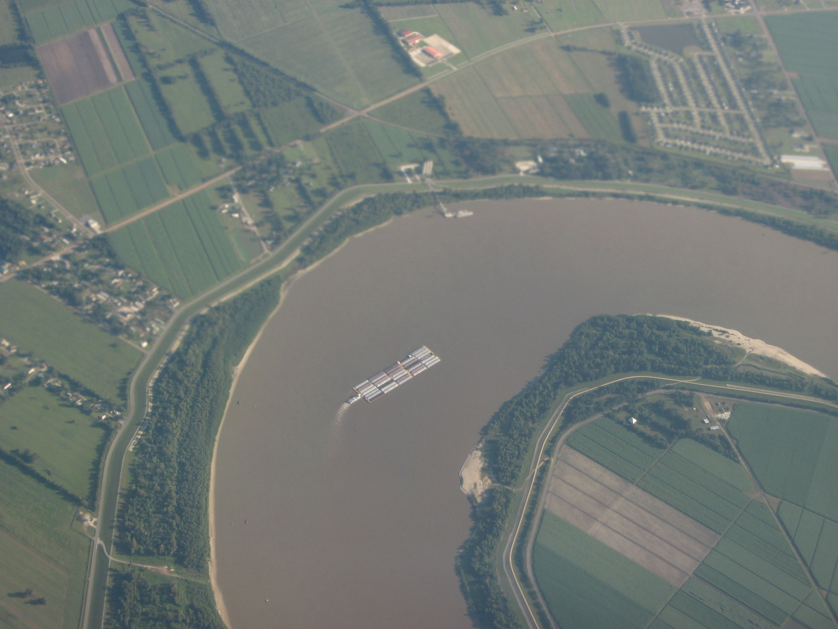 The following is the author's description of the photograph quoted directly from the photograph's Flickr page. "Ascension Parish (French: Paroisse de l'Ascension) is a parish located in the U.S. state of Louisiana. It is one of the fastest growing parishes in the state. Its population is estimated to be greater than the 2000 census. One of the major reasons for parish growth is the number of families wanting to move their children from the East Baton Rouge Parish public schools to the higher-performing Ascension public school system. Ascension Parish is part of the Baton Rouge Metropolitan Statistical Area as well as the Baton Rouge%u2013Pierre Part Combined Statistical Area. "